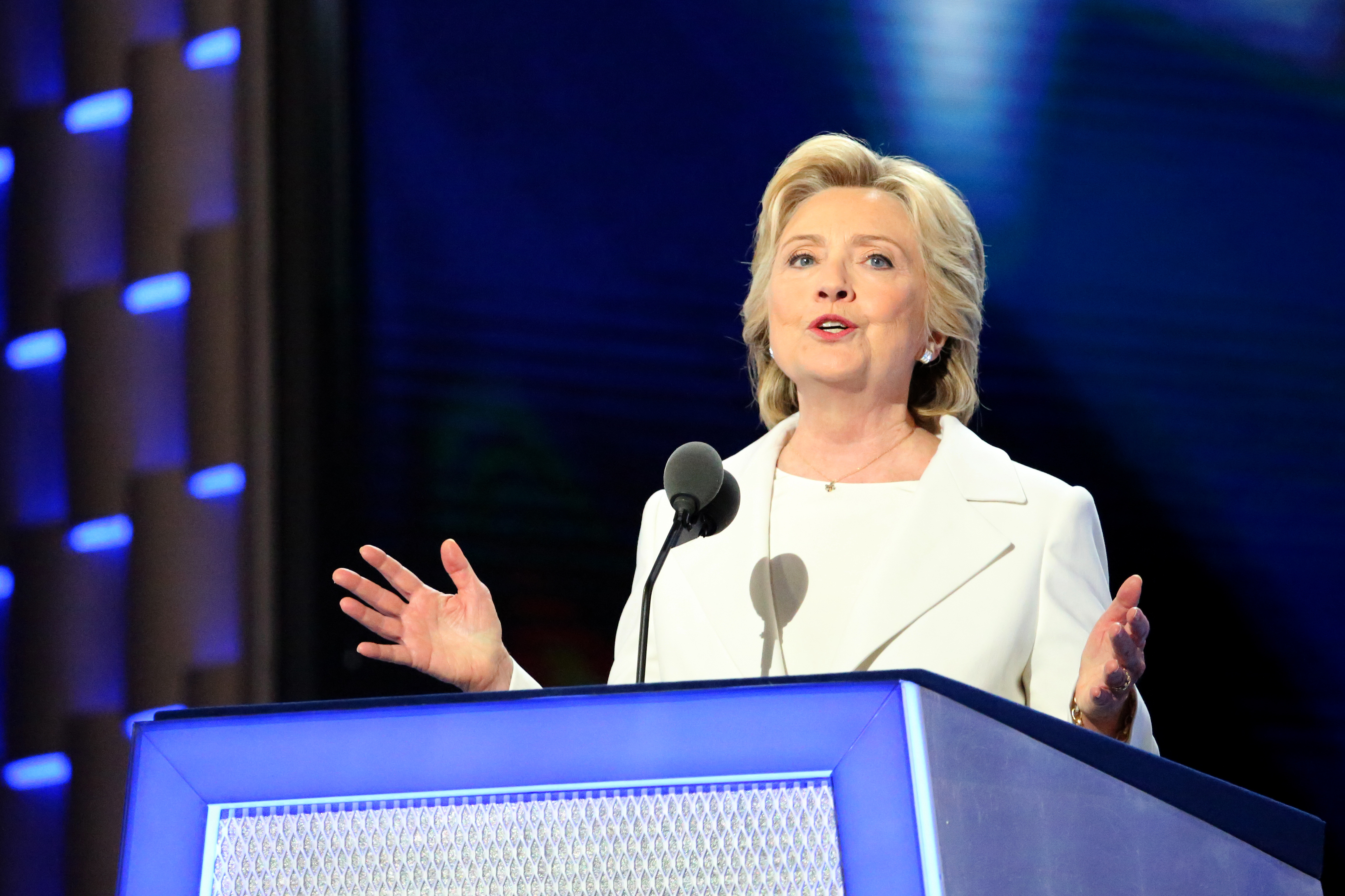 Hillary Clinton formally accepts the Democratic Party's nomination for President on the fourth night of the Democratic National Convention in Philadelphia, July 28, 2016. (A. Shaker/VOA)